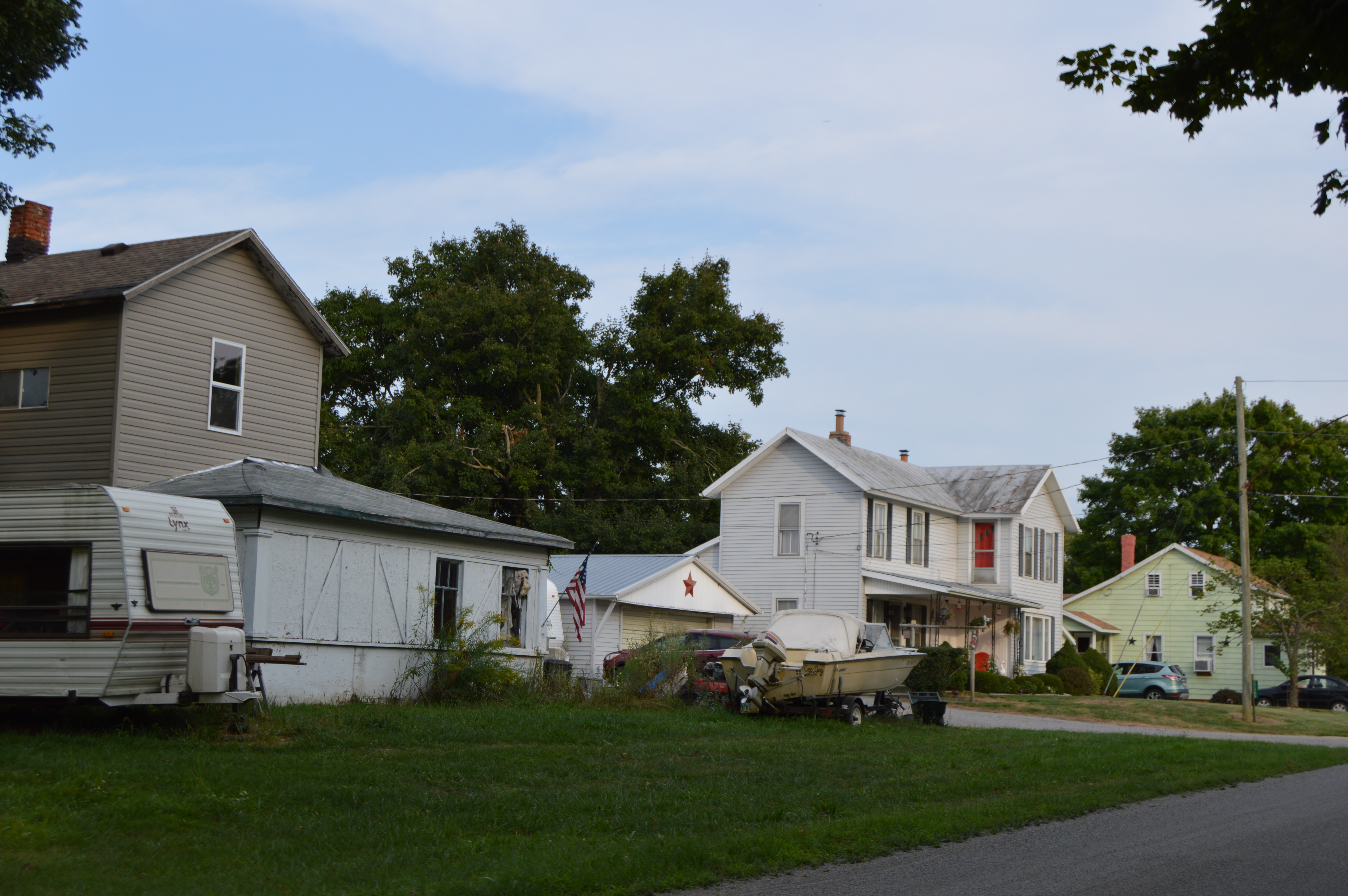 Houses on the eastern side of Sandusky Street (County Road 113) in Little Sandusky, Ohio, United States.